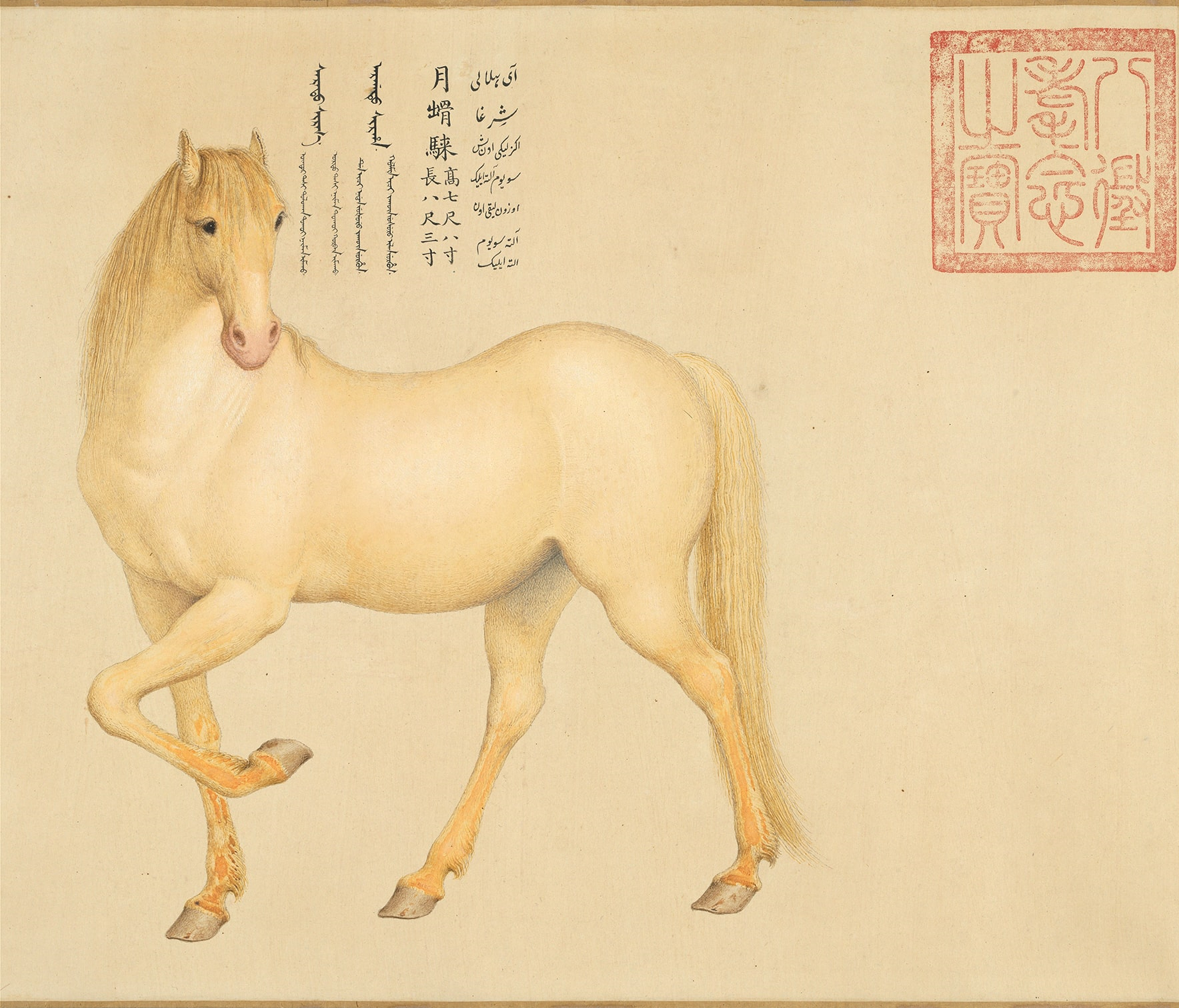 This painting is one of Giuseppe Castiglione's Afghan Four Steeds, features a horse named Yuekulai (月𩨳騋, literally Moon-bone Steed).